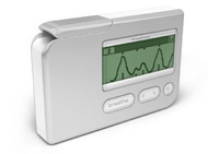 StressEraser is a biofeedback and personal antistress device.